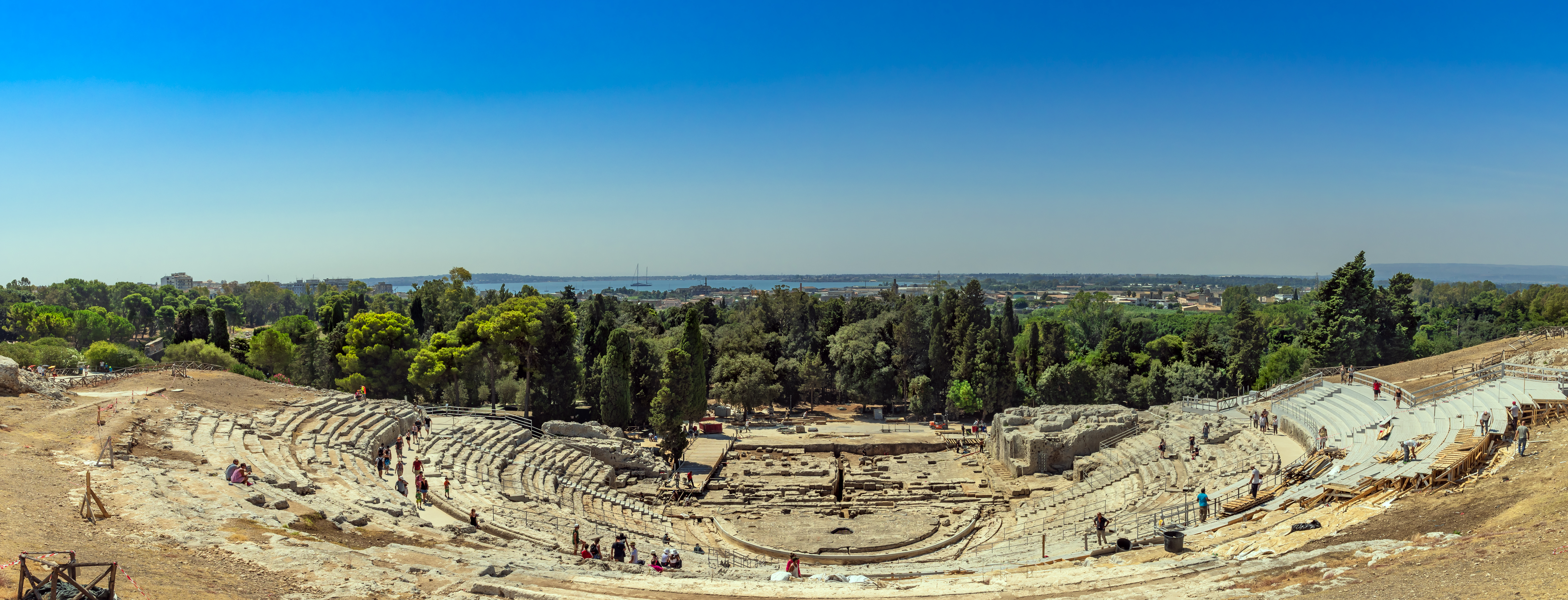 The Greek Theatre in Syracuse facing south over the big harbor